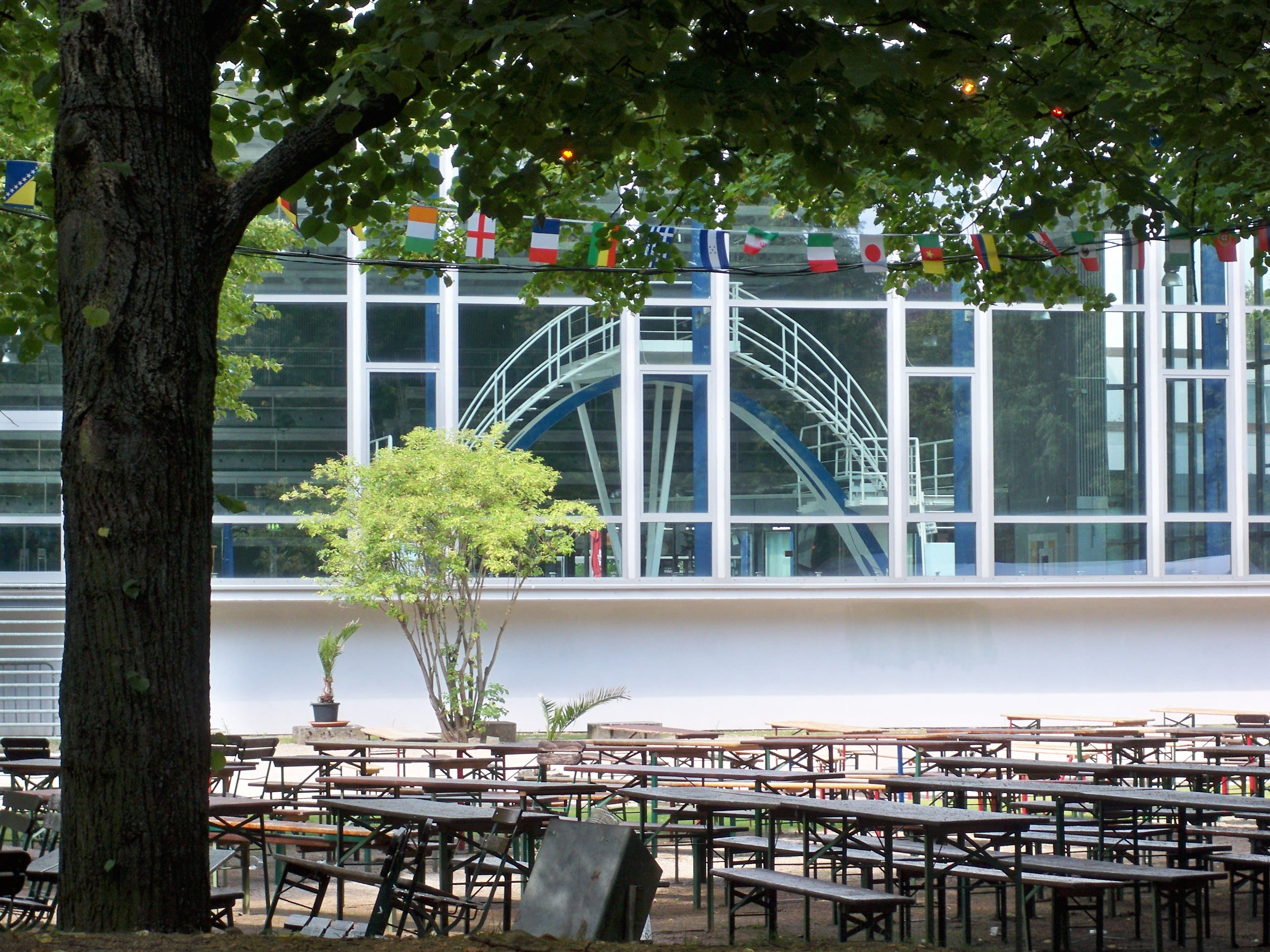 Wolfsburg, Lower Saxony, Hallenbad (cultural centre), beer garden with Schwimmerbecken (former bath)